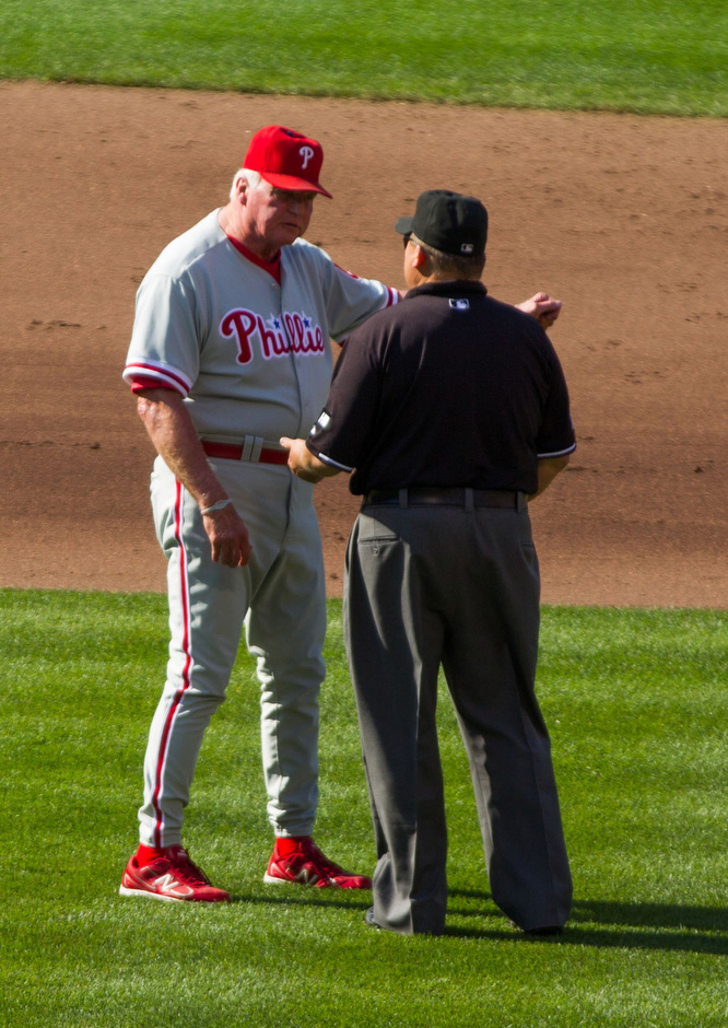 Philadelphia Phillies manager Charlie Manuel argues a call with second base umpire Fieldin Culbreth in a game against the Baltimore Orioles at Orioles Park at Camden Yards on June 9, 2012.